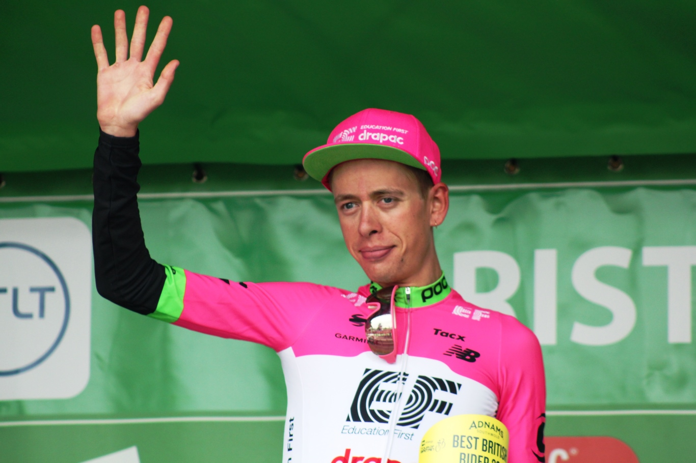 Scott Davies was leading British rider at the end of stage 3 of the 2018 Tour of Britain in Bristol.